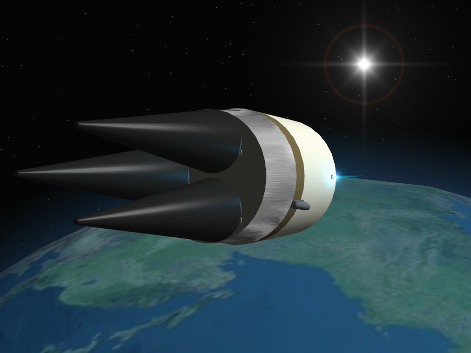 LGM-30G Minuteman III missile, postboost vehicle before reentry.